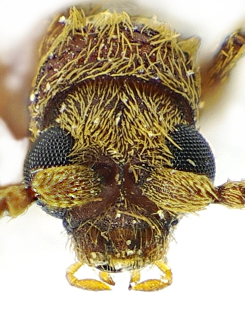 Ptinus fur, male, from Southern Germany, caught 2009-08-21 within the house